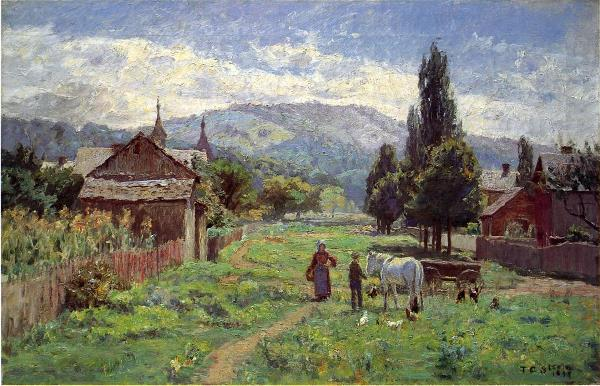 Cumberland Mountains